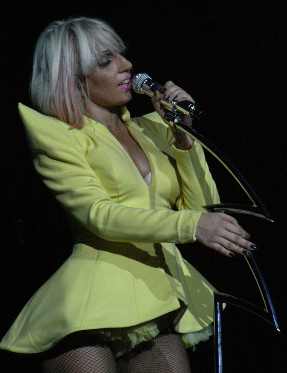 Lady Gaga performing "Eh, Eh" on The Fame Ball Tour, 2009.